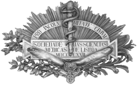 Logo of the Lisbon Society of Medical Sciences